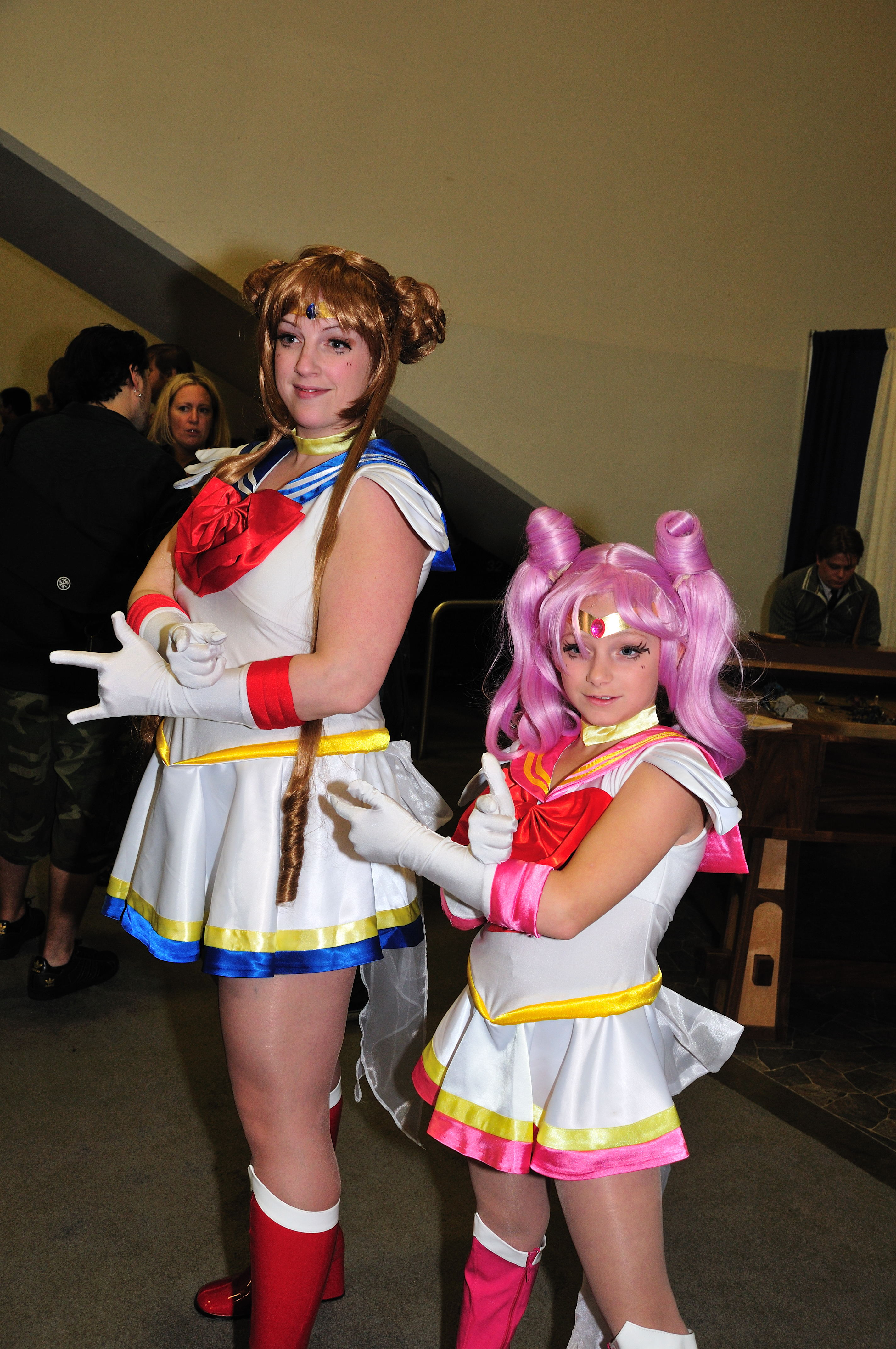 Around the floor, WonderCon 2010